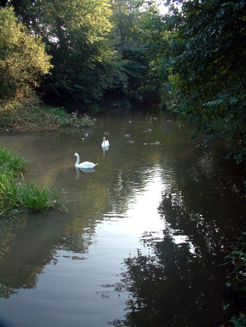 Quy Water, Stow-cum-Quy, CB5. Looking southwest from the Stone Bridge on Station Road.